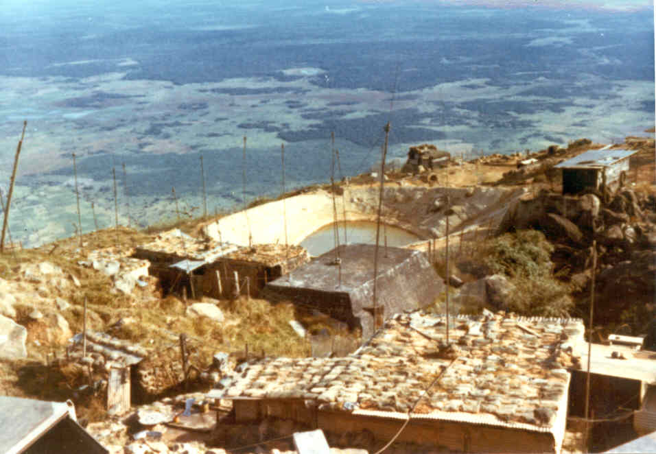 The view from Nui Ba Den with Vietnamese water storage pit shown